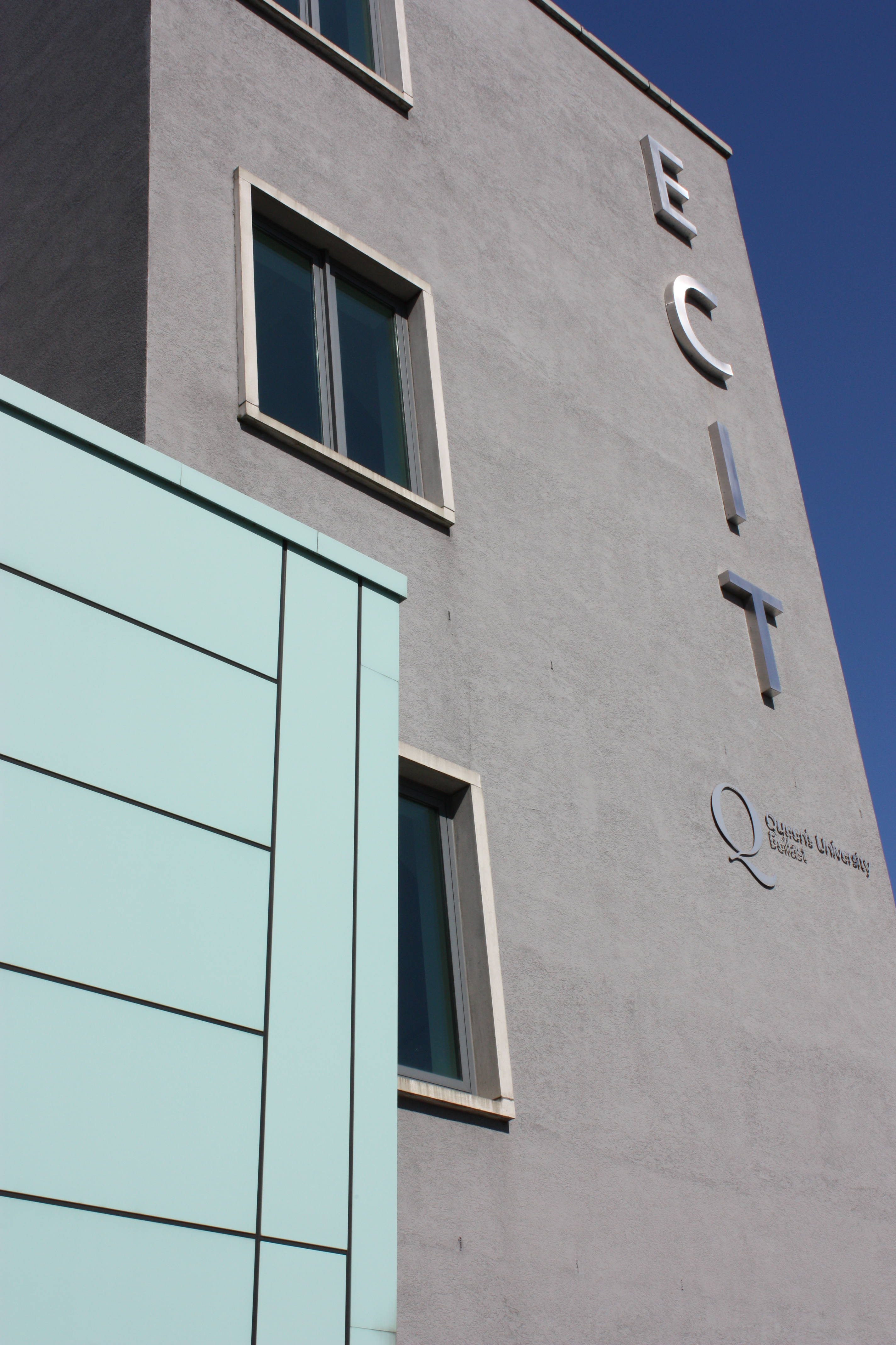 Institute of Electronics, Communications and Information Technology (ECIT), Queen's University, Belfast, NI Science Park, Titanic Quarter, Belfast, Northern Ireland, April 2010